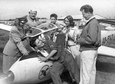 The Fergeteg glider called the "Oriole", in the movie "Sometimes 2x2 = 5". The glider is a MSE M30 Fergeteg.